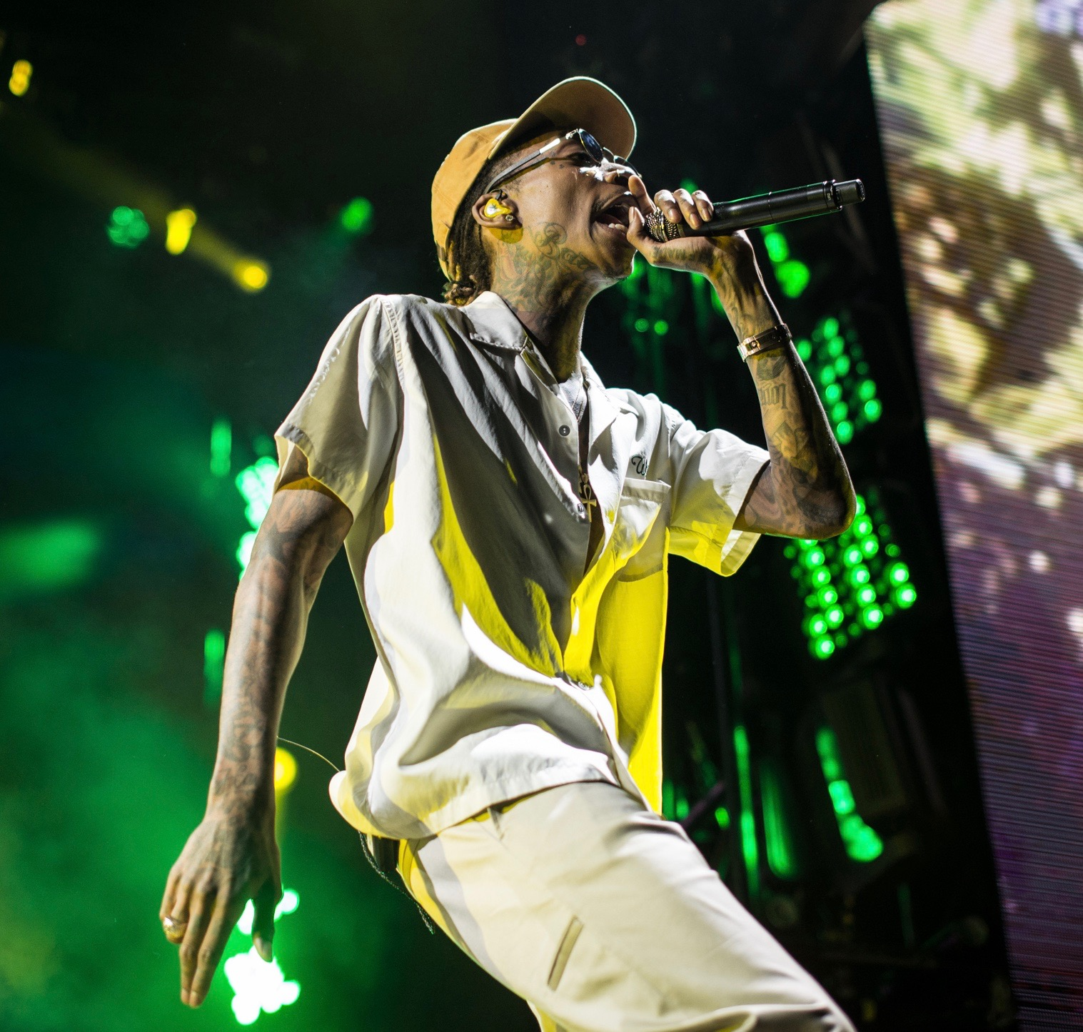 The High Road Summer Tour 2016 at the Molson Canadian Amphitheatre featuring Snoop Dogg, Wiz Khalifa, Jhené Aiko, Casey Veggies and Dj Drama. Photography by Charito Yap